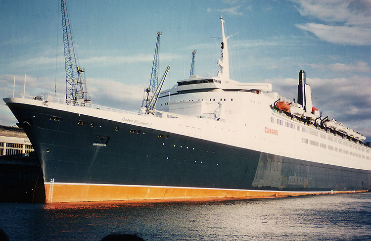 The QE2 in Southampton Docks, England, 1976.